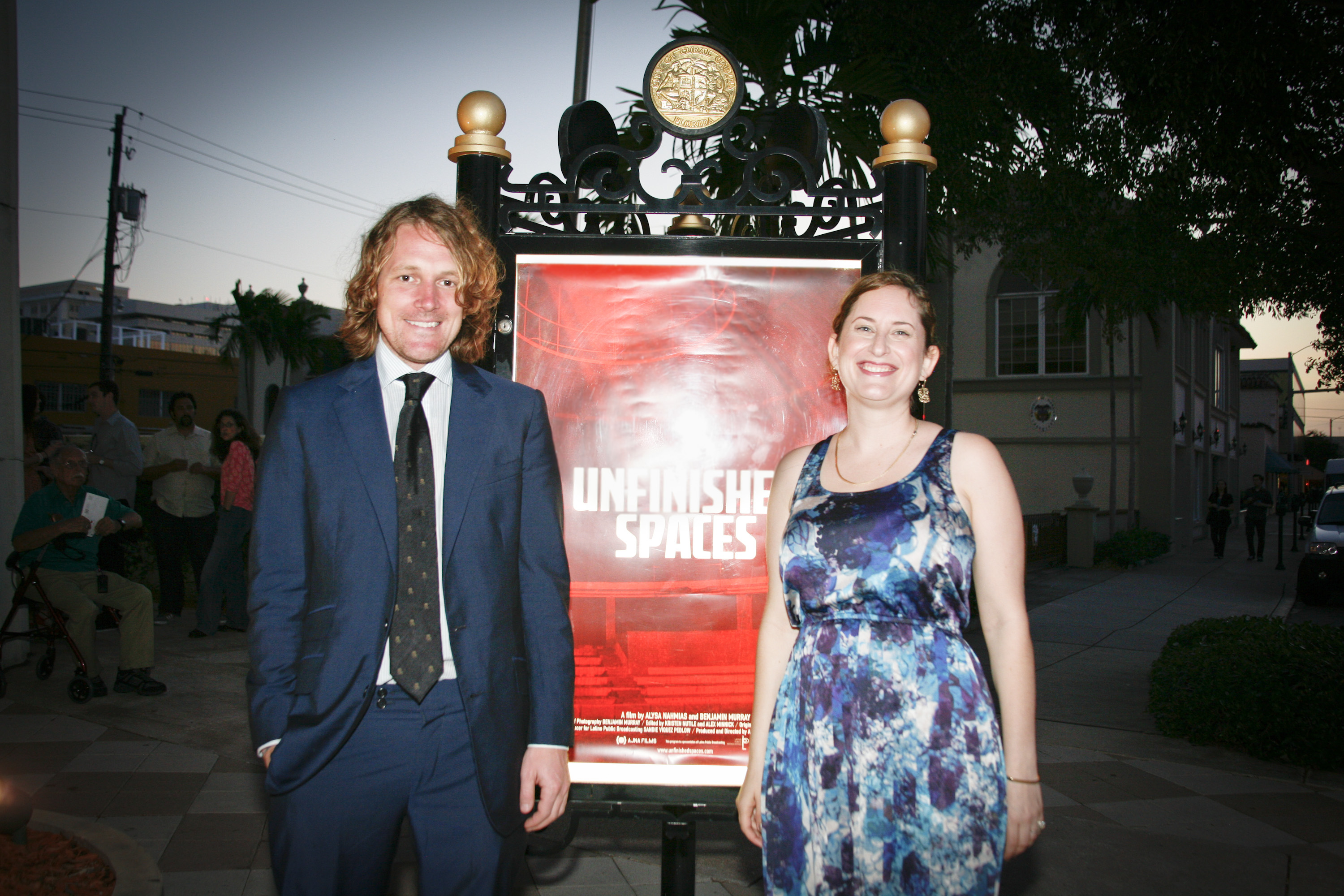 Directors Alysa Nahmias & Benjamin Murray at the 2012 Miami international Film Festival presentation for the film "Unfinished Spaces" at the Coral Gables Cinema